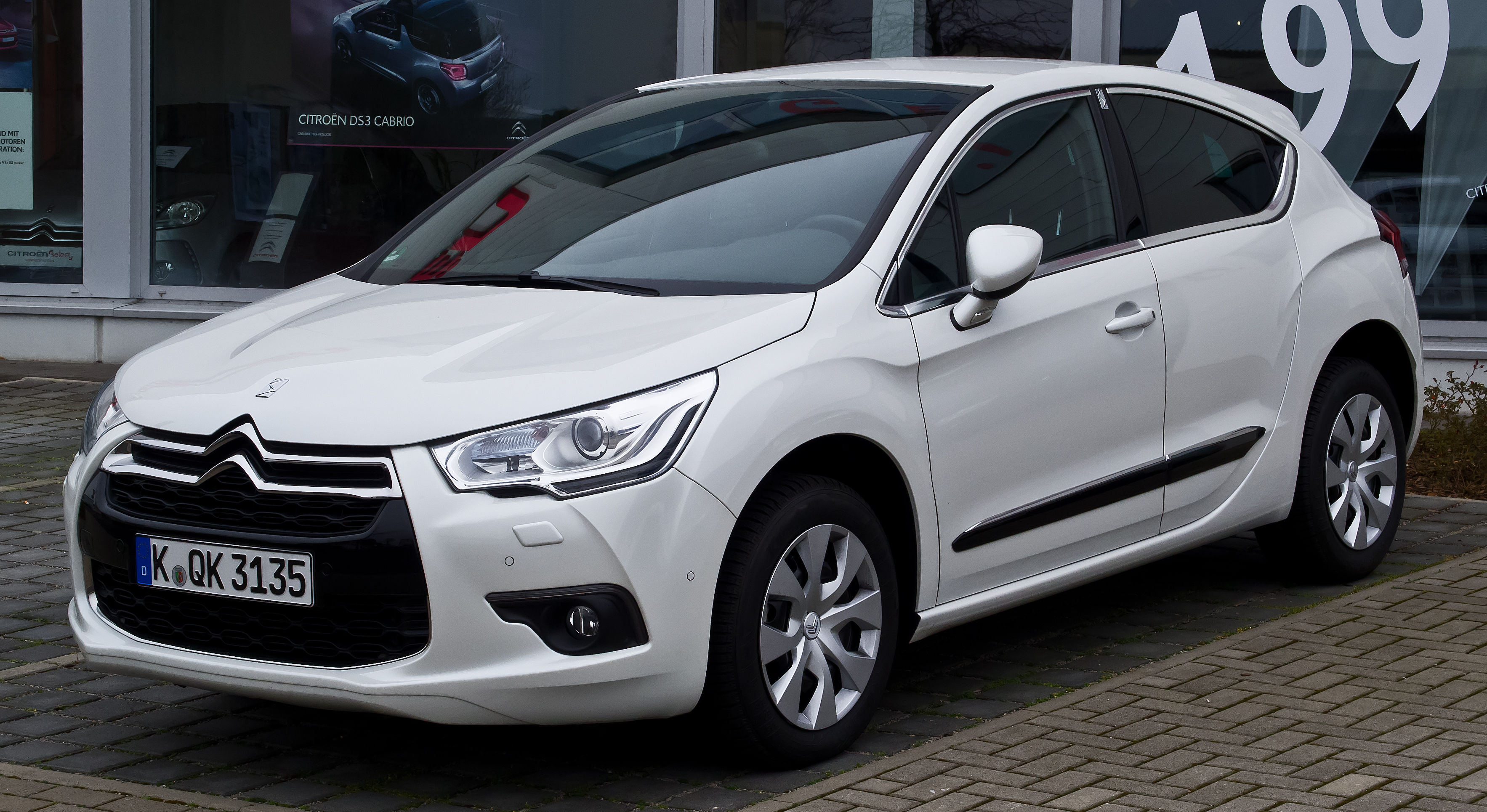 Citroën DS4 SoChic